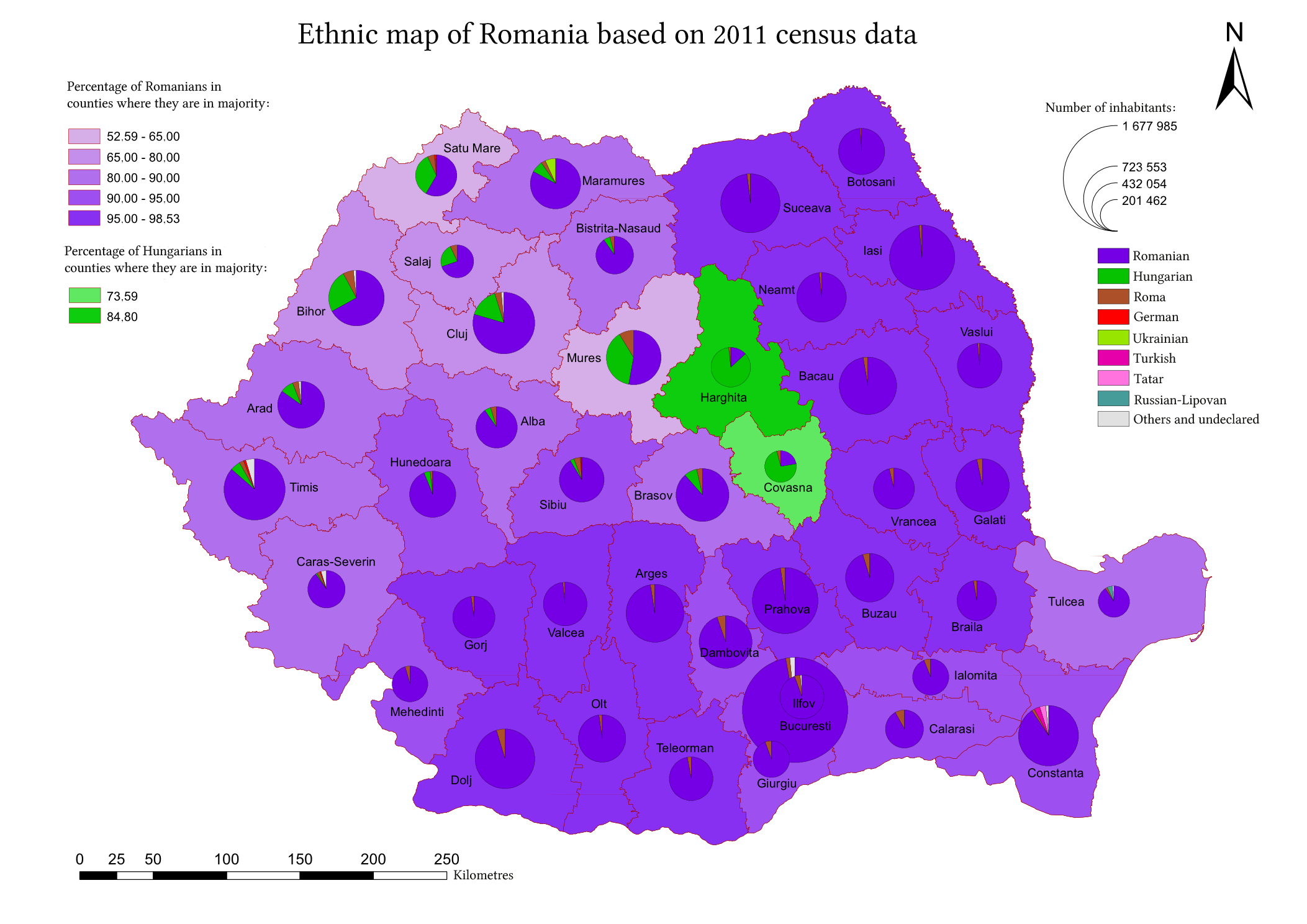 Ethnic map of Romania based on 2011 census data.